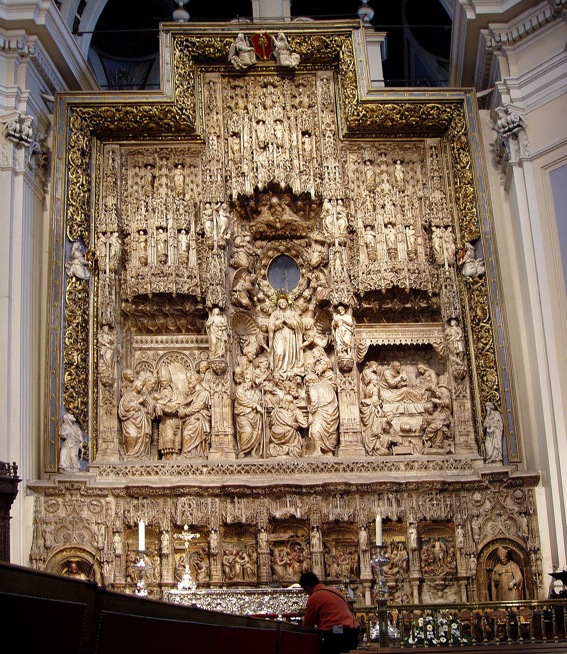 Retablo del altar mayor de la Basílica de Nuestra Señora del Pilar (Zaragoza, España)